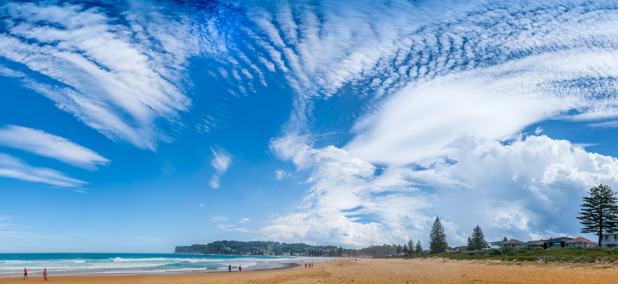 Avoca Beach, New South Wales pano facing south with storm building